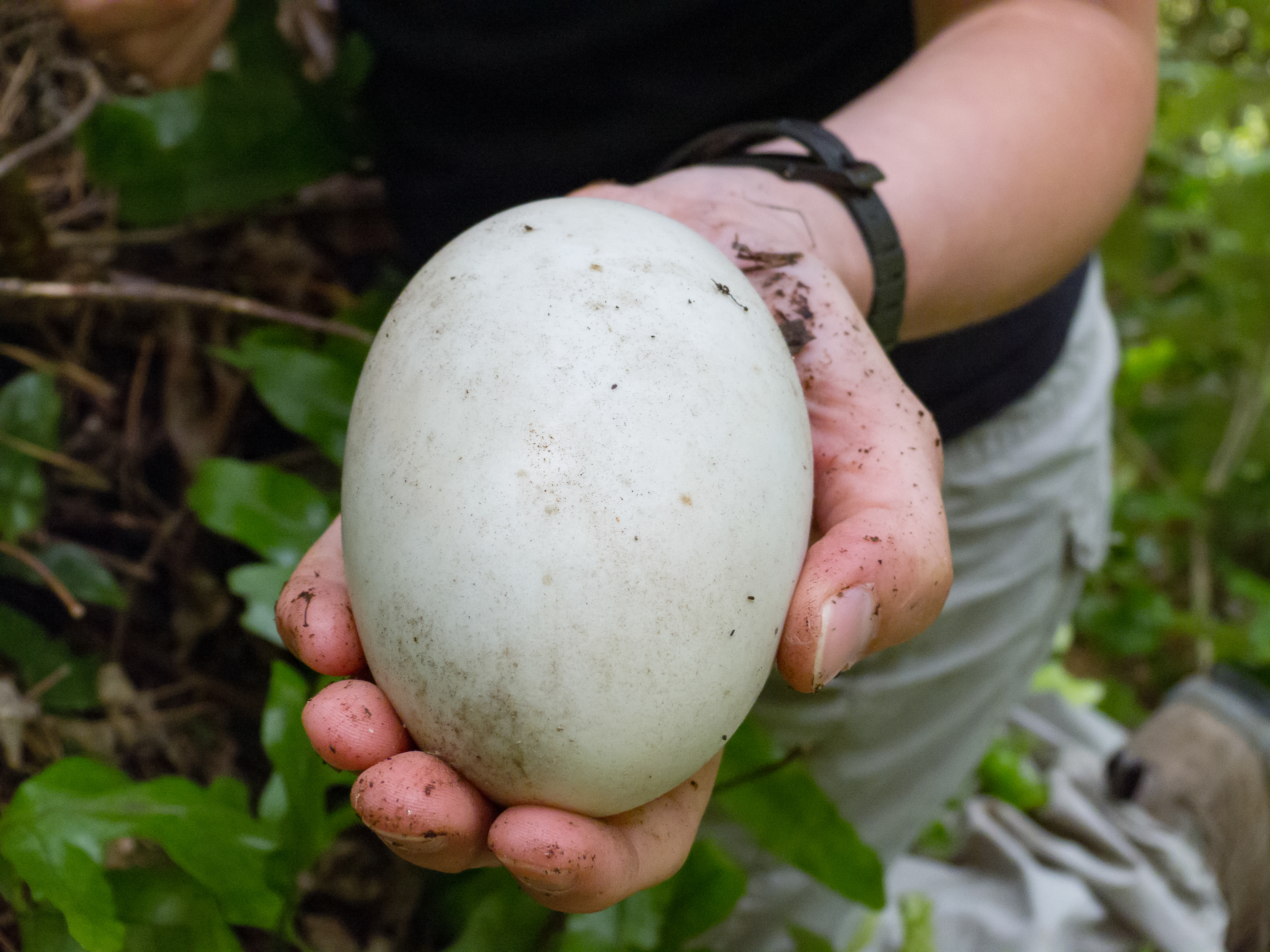 Little spotted kiwi (Apteryx owenii; kiwi pukupuku) egg held in a human hand at Zealandia EcoSanctuary, Wellington, New Zealand.